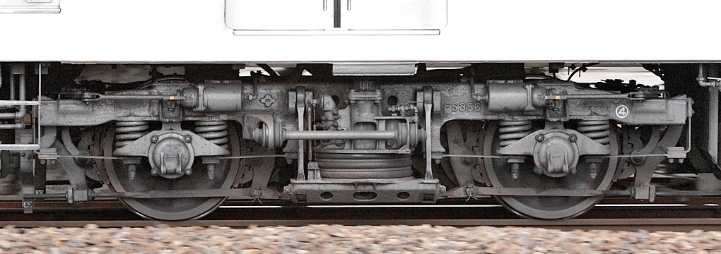 Sumitomo Metal Industries type FS356 ( Tobu type TRS-62M ) bogie truck of Tobu Railway 8000 series EMU ( Moha 8556 )